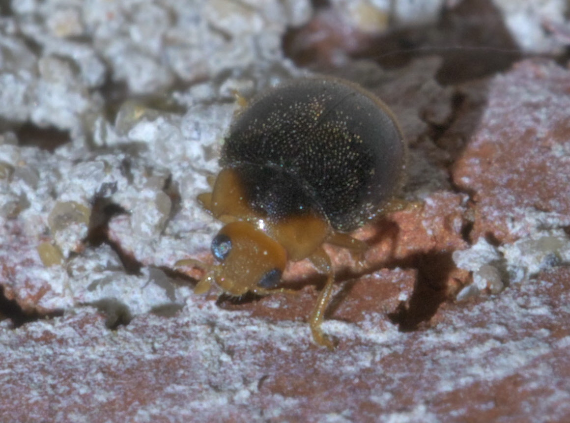 Diomus terminatus, Family: Lady Beetles, ID Confidence: 98